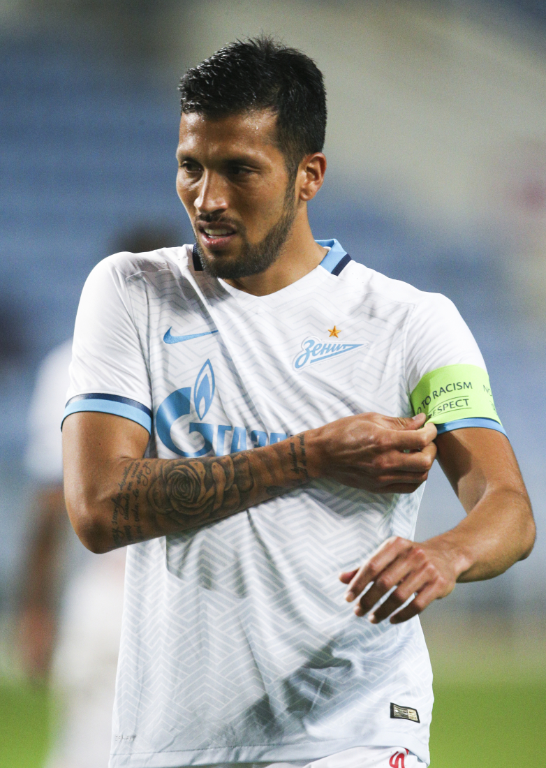 Ezequiel Garay